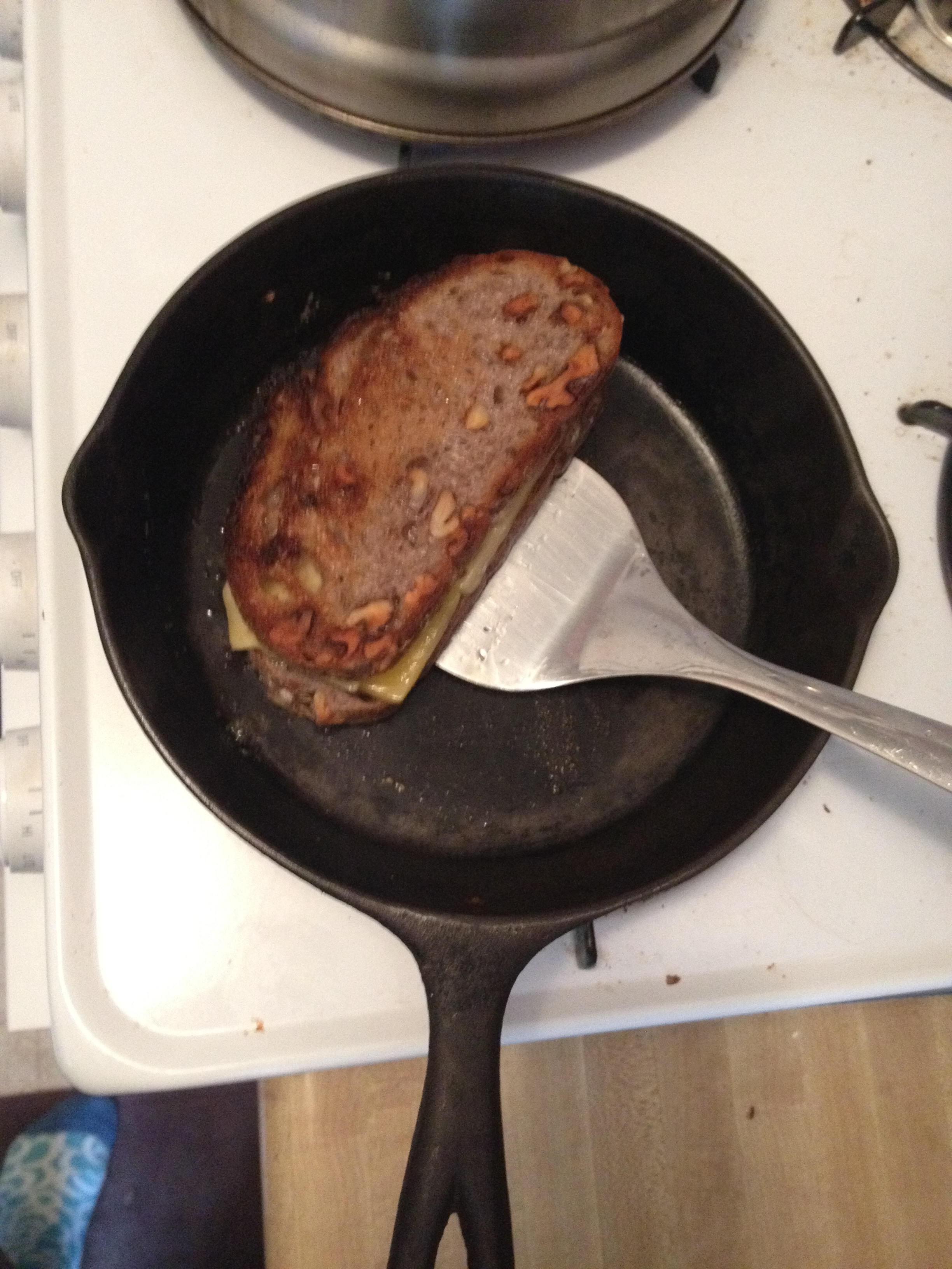 Grilled cheese made with walnut bread and cheddar cheese